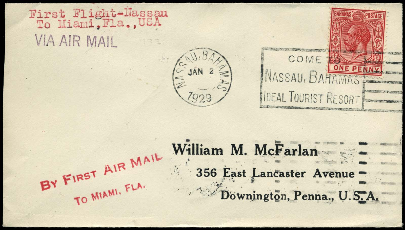 Front of cover from the Bahamas, 1929